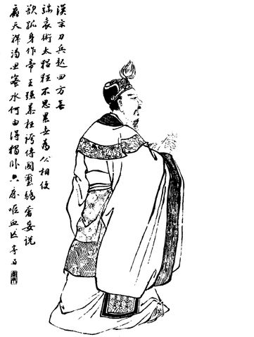 Qing dynasty portrait of Yuan Shu